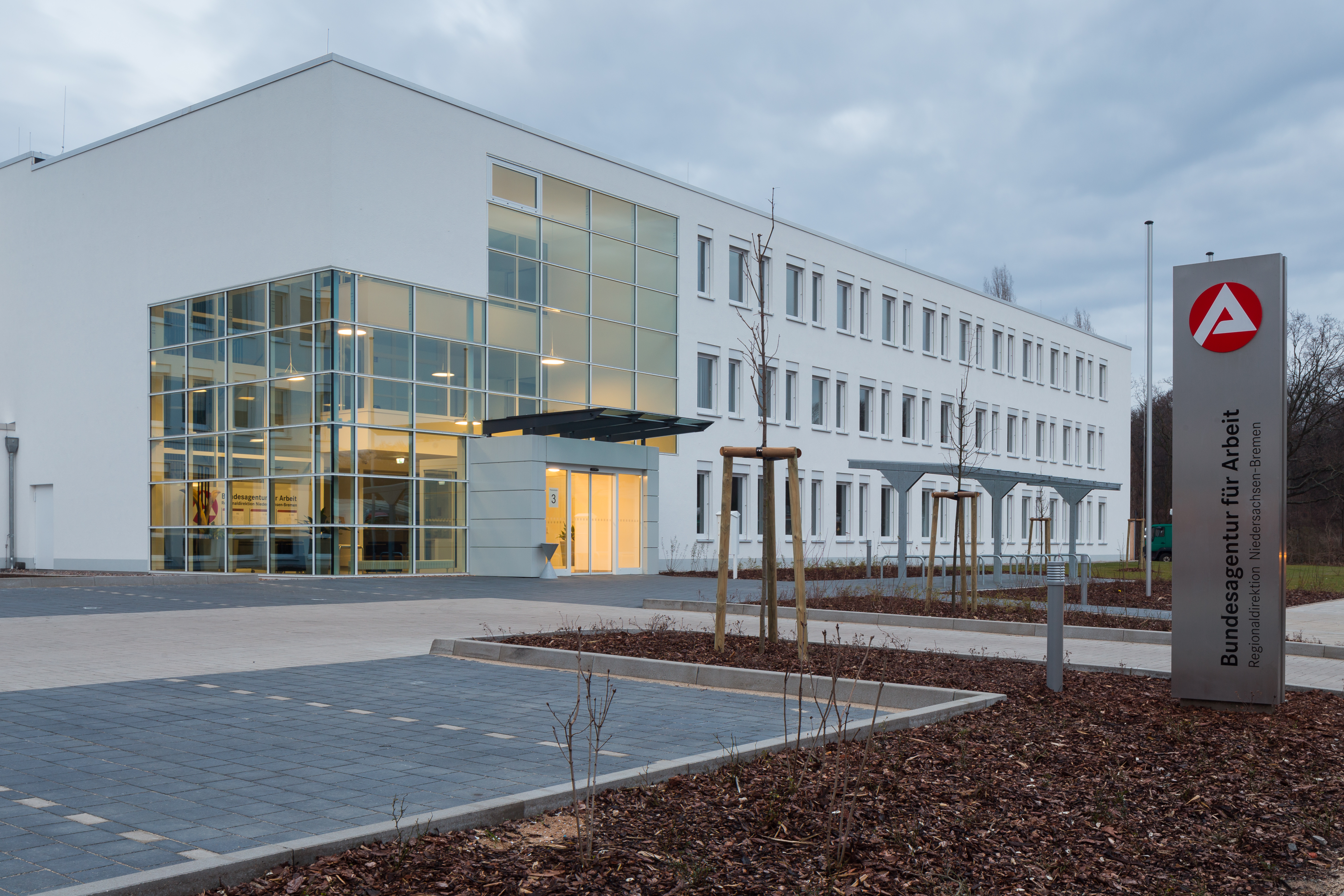 Office building of Bundesagentur fuer Arbeit (agency for employment) located at Roepkestrasse no. 3 in Bult district of Hannover, Germany.